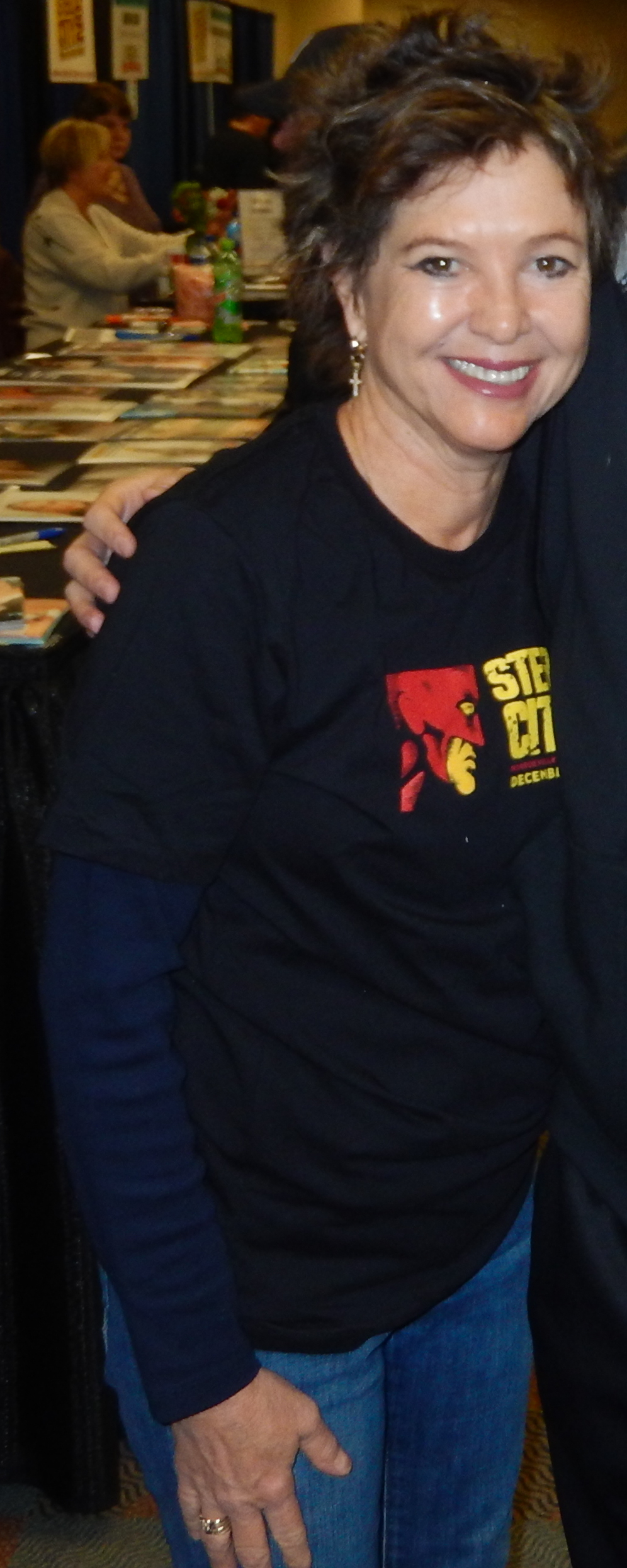 Star of Empty Nest, Little Darlings, and Only When I Laugh.